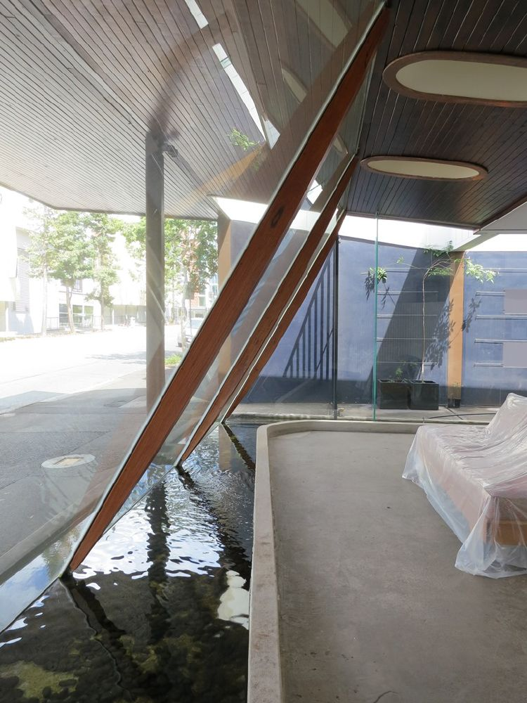 Shopfront interior, looking SW (2015)